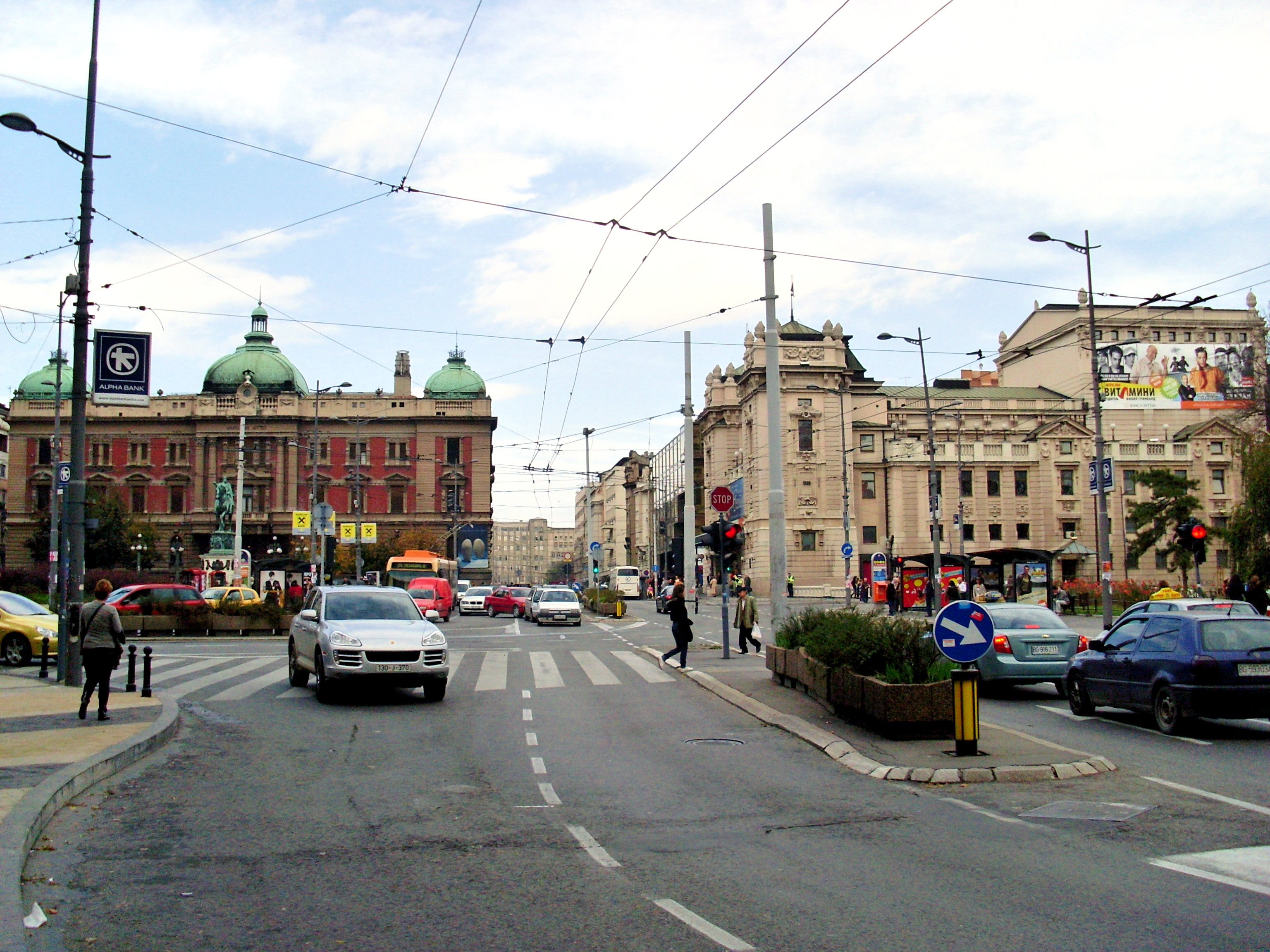 Trg republike main square in Belgrade with National museum and National Theater